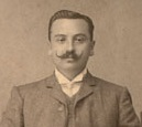 Mihail Kyulyumov (sitting) with his sons Pancho and Petar and Petar's family in Thessaloniki, 1905, Bulgarian National Library